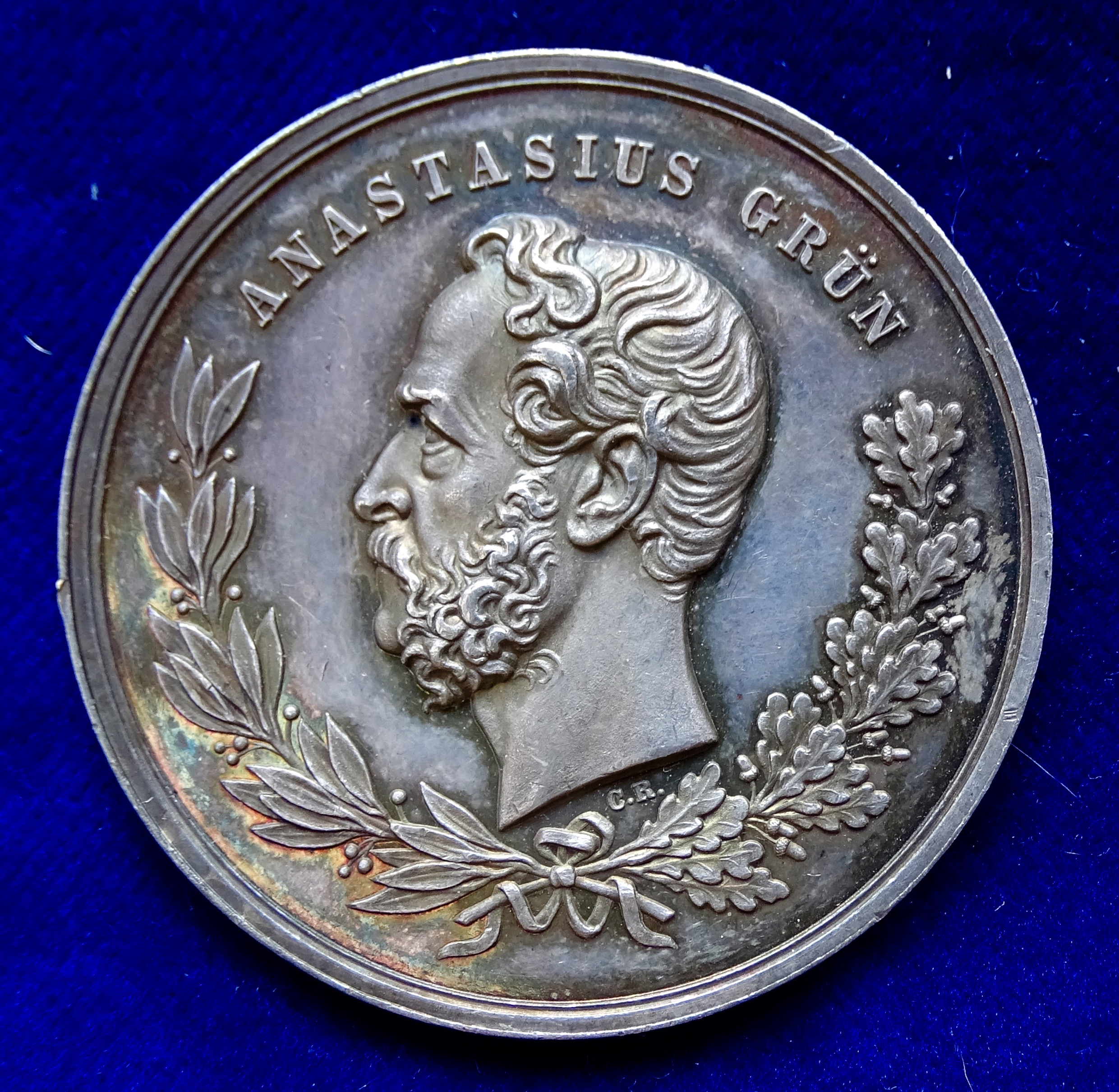 Medallion d. = 47 mm. 35.47 g Ag Count Anton Alexander von Auersperg, Austrian poet and politician, also known under the name Anastasius Grün, 1806 Laibach (Ljubljana), Slovenia - 1876 Graz, Austria Head l., curved above: "ANASTASIUS GRÜN"/ Harp playing angel, 2 lines below: "11. April 1876". 2 lines around: "ZUM SIEBZIGSTEN GEBURTSTAGE DER JOURNALISTEN U. SCHRIFTSTELLER VERBAND CONCORDIA IN WIEN". Wurzbach 3403; Stadt Leipzig Museum MS/5352/2005 Medallist: C.R. (Carl Radnitzky), 1818 Wien - 1901 Vienna, Austria. Condition: EXTREMELY FINE+, beautiful old patina.